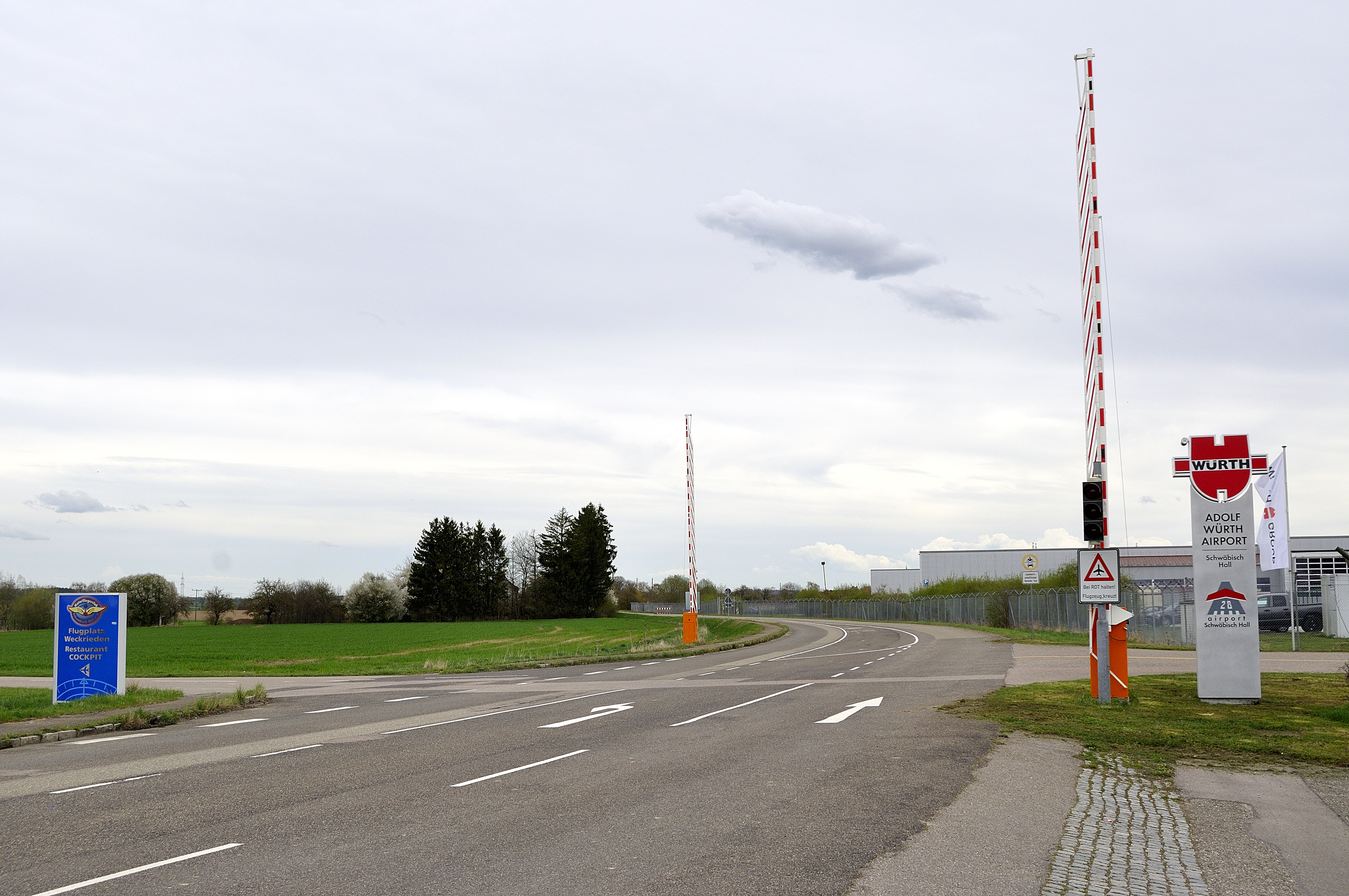 Roadcrossing of the taxiway from EDTY to EDTX